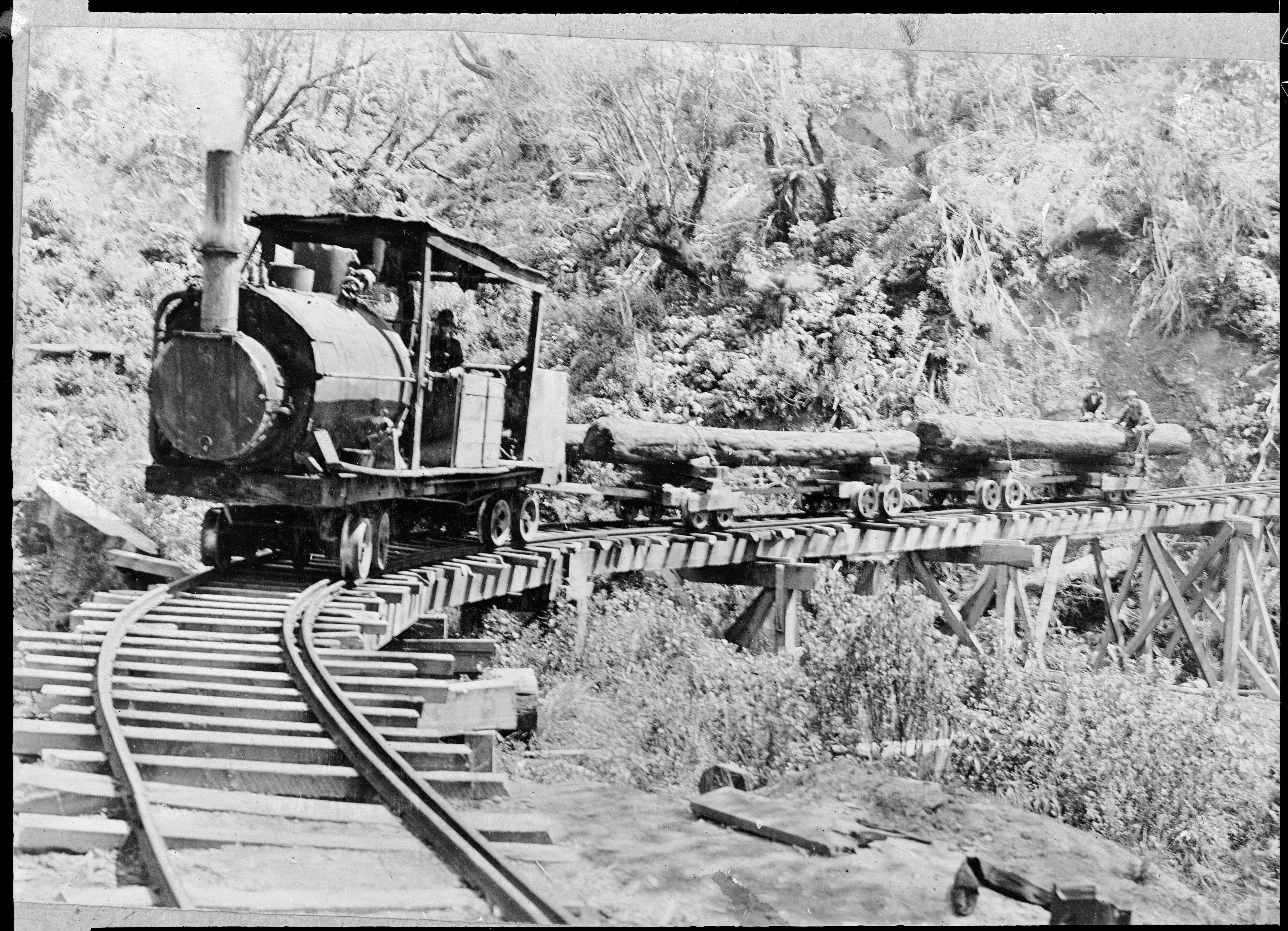 Logging train rounding a bend near Raurimu. Train owned by the Tamaki Sawmill Co., Raurimu (B Len Knight, manager). Photographed by Albert Percy Godber circa 1917. For another view of this locomotive see APG-1208-1/2 "A bush locomotive. Raurimu", and APG-1098-1/2-G.